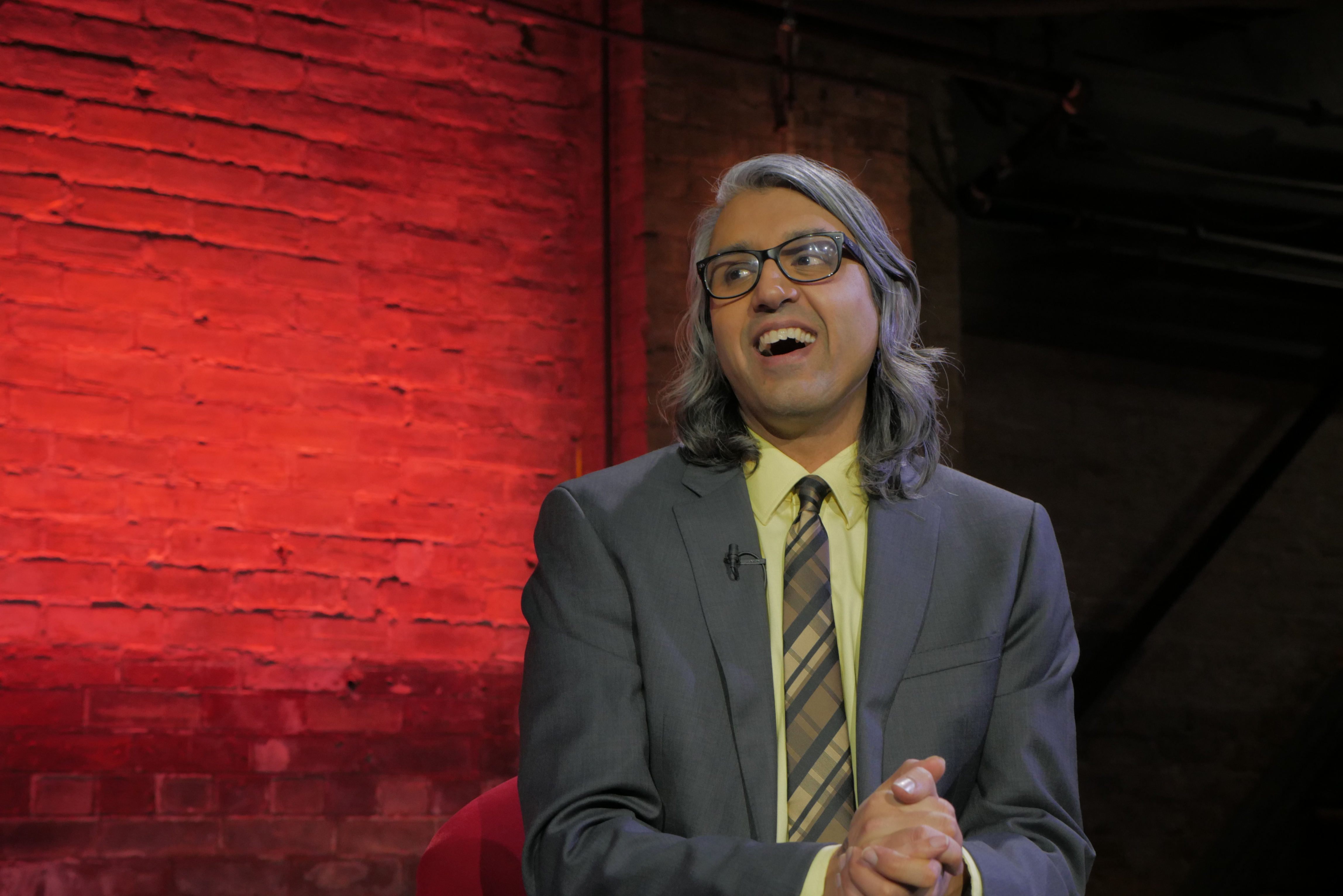 photo of Canadian media personality Vish Khanna taken by Colin Medley